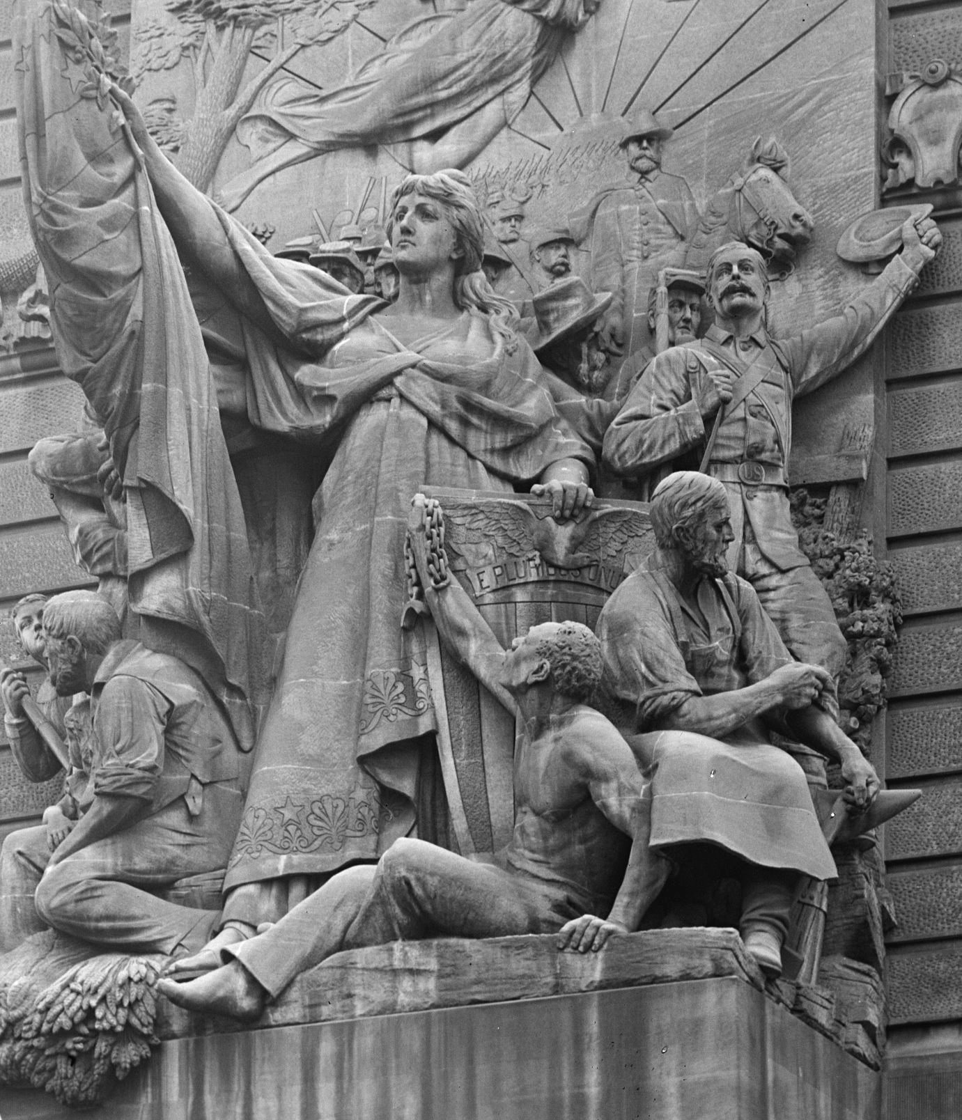 Detail of the west face of the Soldiers and Sailors Monument showing sculpture group, and the figure to be used by Fred Wilson in the public artwork "E Pluribus Unum"